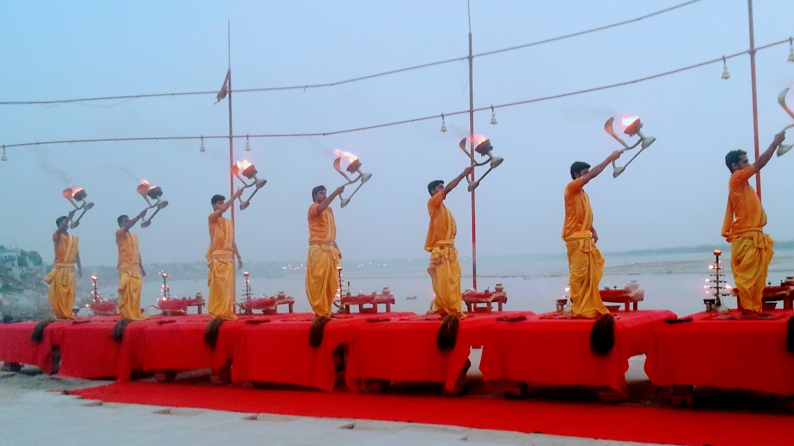 Assi Ghat Varanasi morning Aarti on 8 June 2018